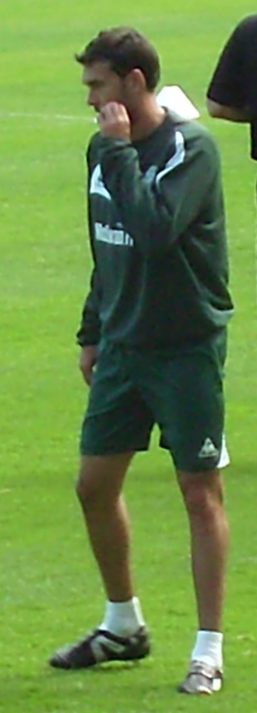 Hibernian F.C. player Ian Murray training at an open day staged by the club at Easter Road on 2 August 2009.